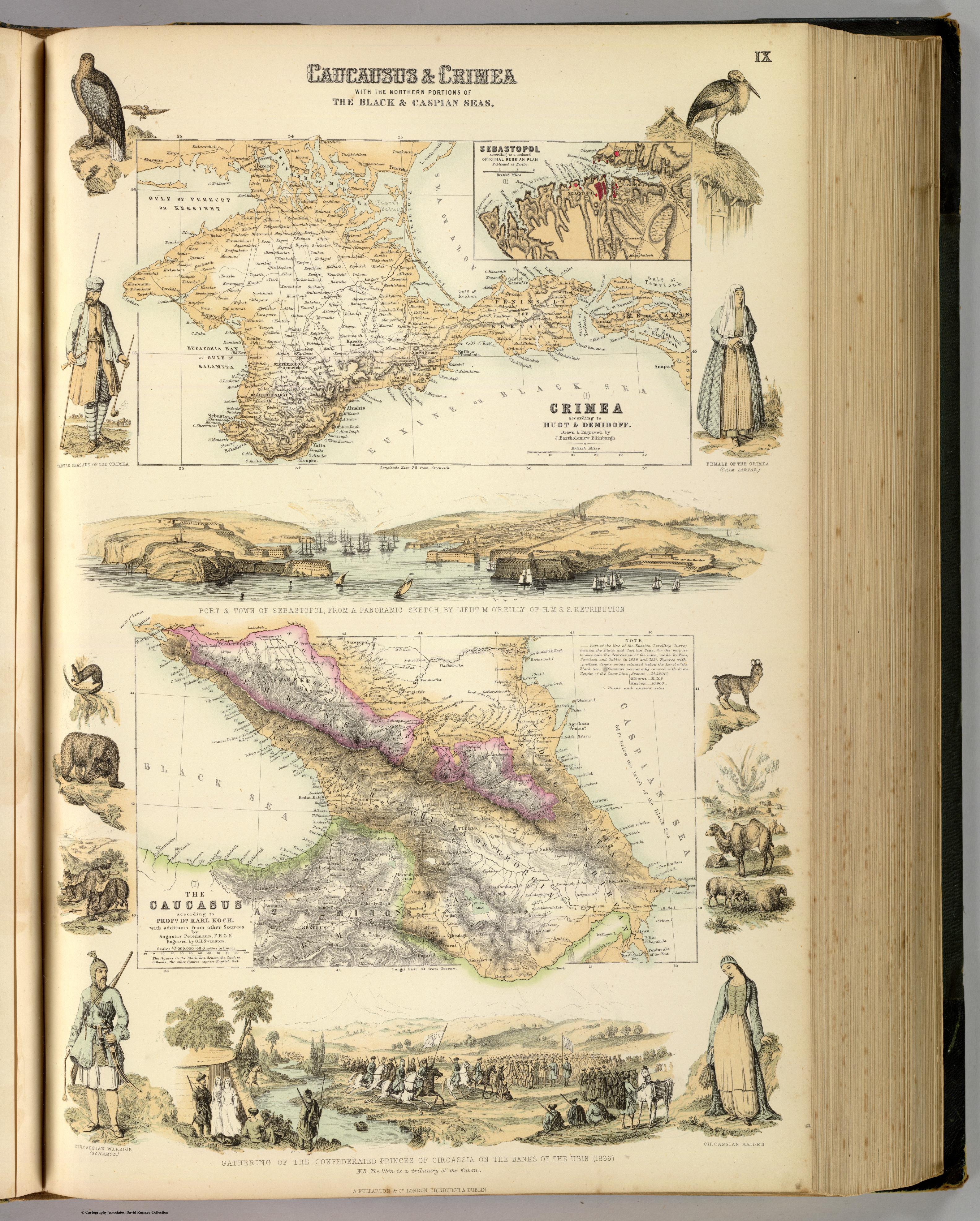 (Caucausus & Crimea with the Northern Portions of the Black & Caspian Seas, IX. (with) Crimea according to Huot & Demidoff. Drawn & Engraved by J. Bartholomew, Edinburgh. (with) The Caucasus according to Profr. Dr. Karl Koch, with additions from other Sources by Augustus Petermann, F.R.G.S. Engraved by G.H. Swanston. A. Fullarton & Co. London, Edinburgh & Dublin.